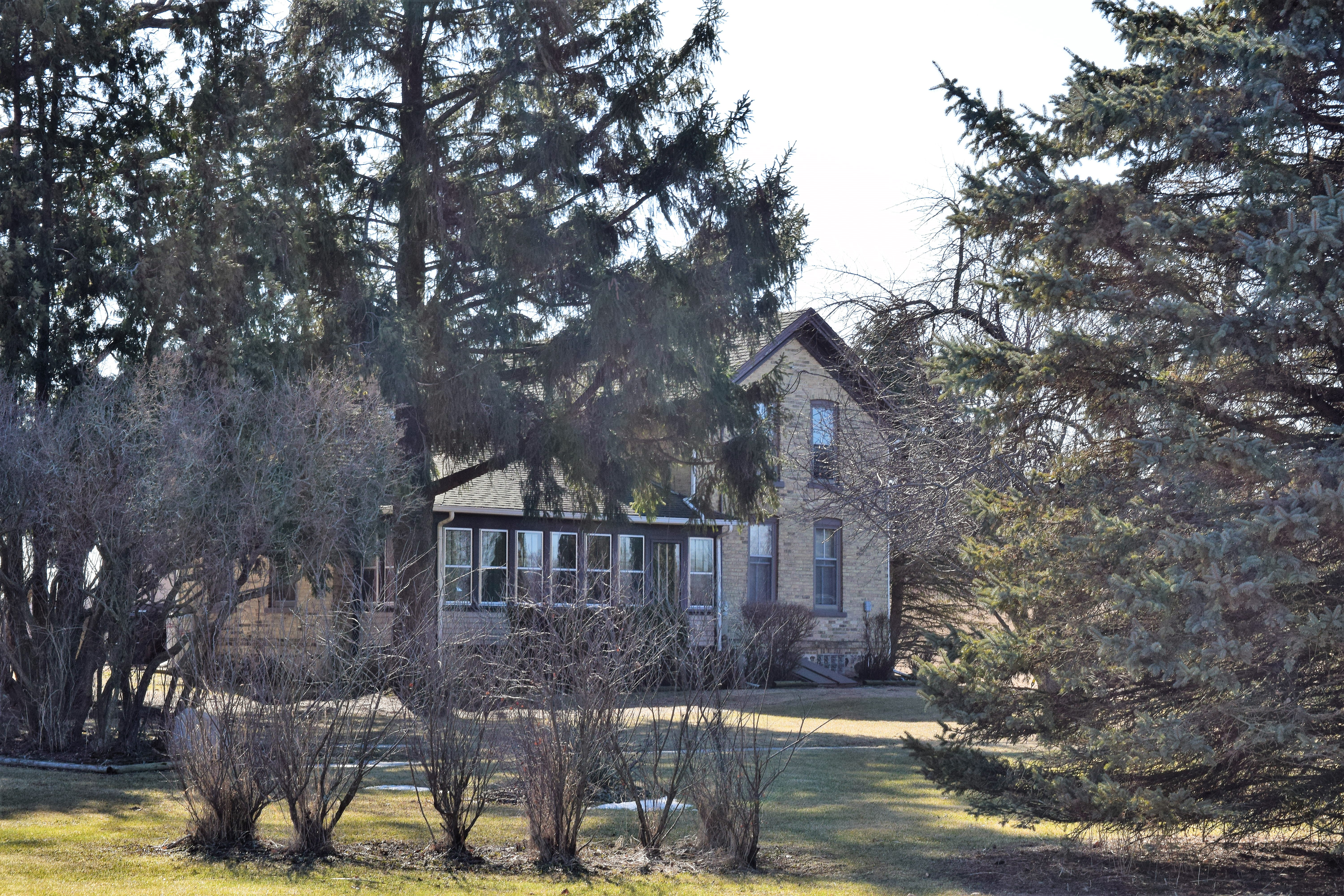 The farmhouse at the Michael and Margaritha Beck Farmstead, located at W2803 U.S. Highway 18 in the town of Jefferson, Wisconsin. The farmstead is listed on the National Register of Historic Places.